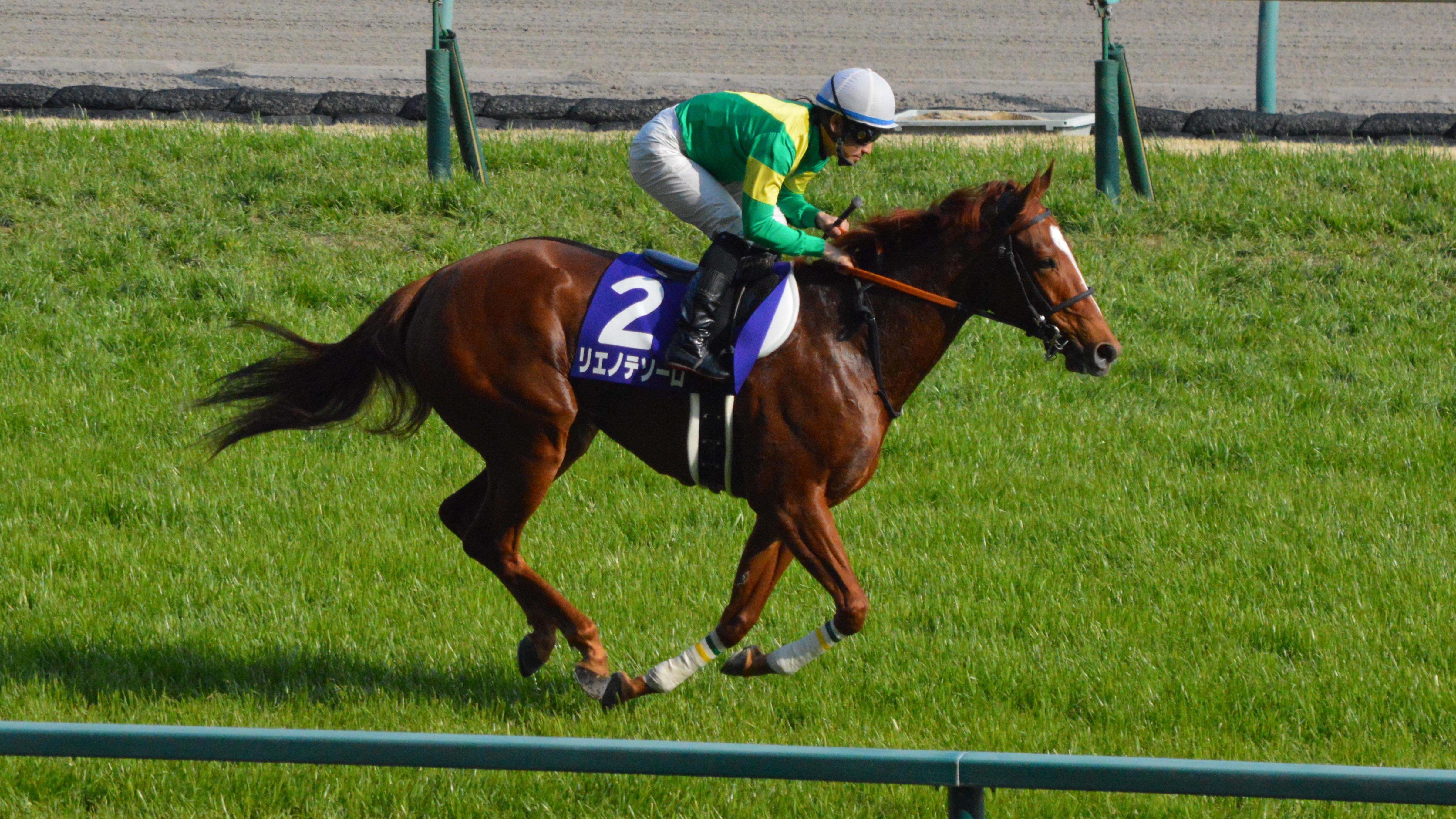 Japanese race horse Rieno Tesoro at Chukyo racecourse. Chukyo (JPN) 25 Mar 2018Takamatsunomiya Kinen (Grade 1) (4yo+) (Turf) 6f Firm RankHorse NameOddsAgeWgtJockeyTrainer1stFine Needle (JPN)9/2H59-0Yuga KawadaYoshitada Takahashi14thRieno Tesoro (USA)113/1F48-9Hayato YoshidaRyo TakeiOthers are omitted. (18 horses entered in a race.)